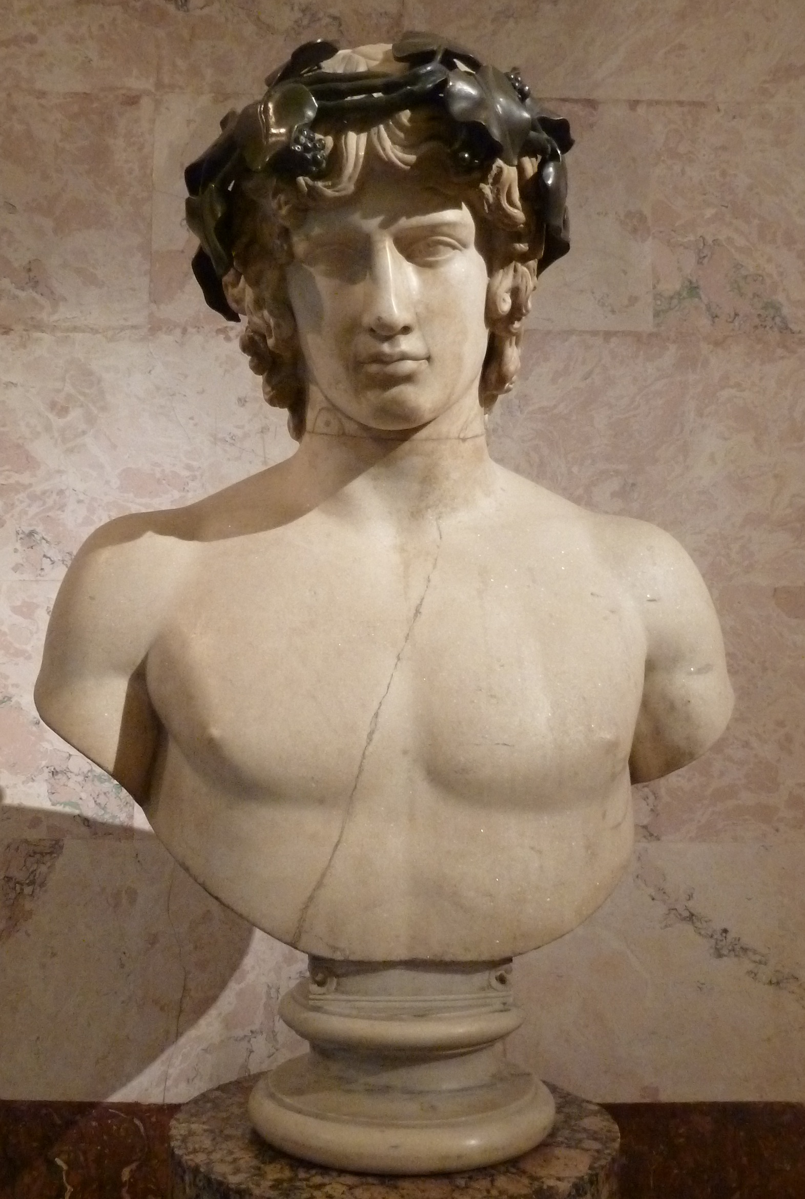 Bust of Antinous, from the Hermitage Museum, St. Petersburg.